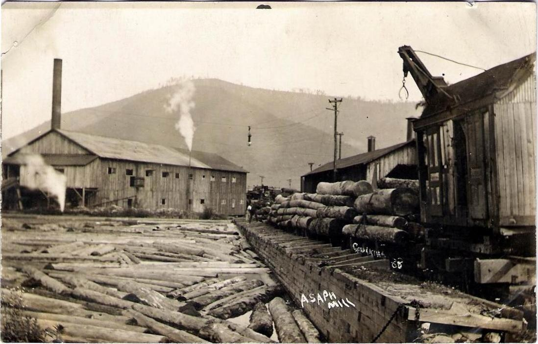 Lumber Mill in the village of Asaph, Tioga County, Pennsylvania, USA. Located on Marsh Creek, a Pine Creek tributary.